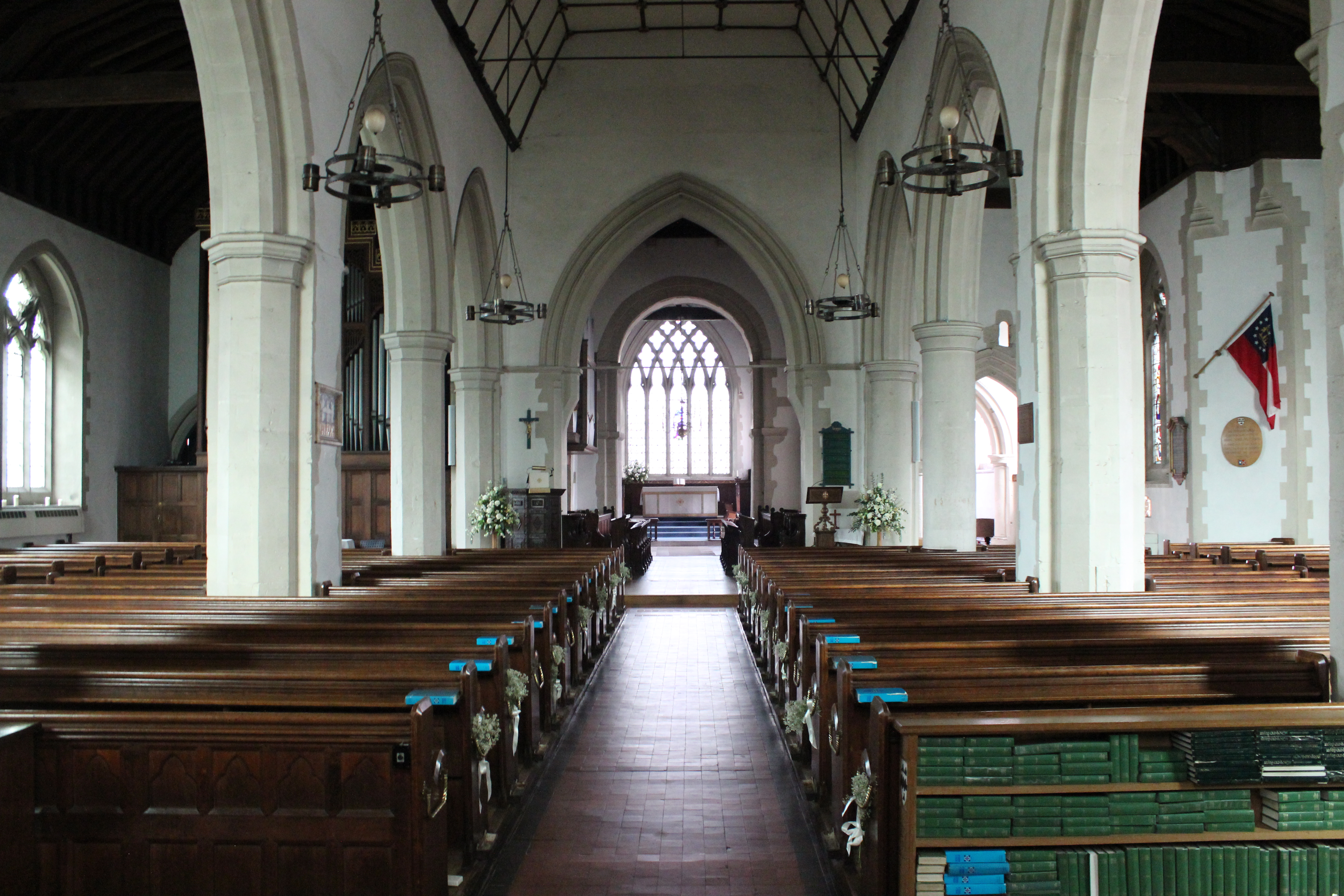 St Peter and St Paul's church, Godalming (interior)